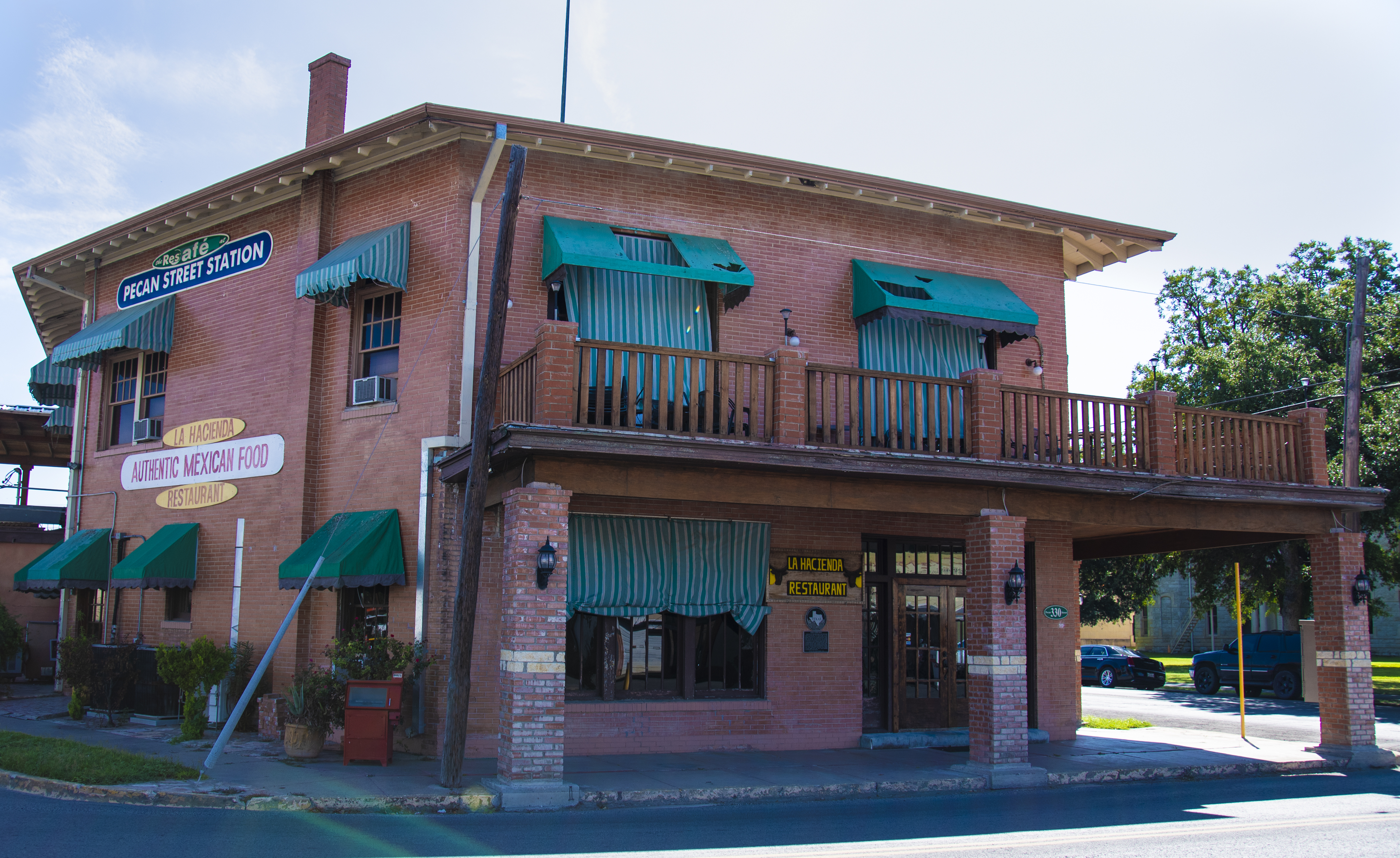 Pecan Street Station